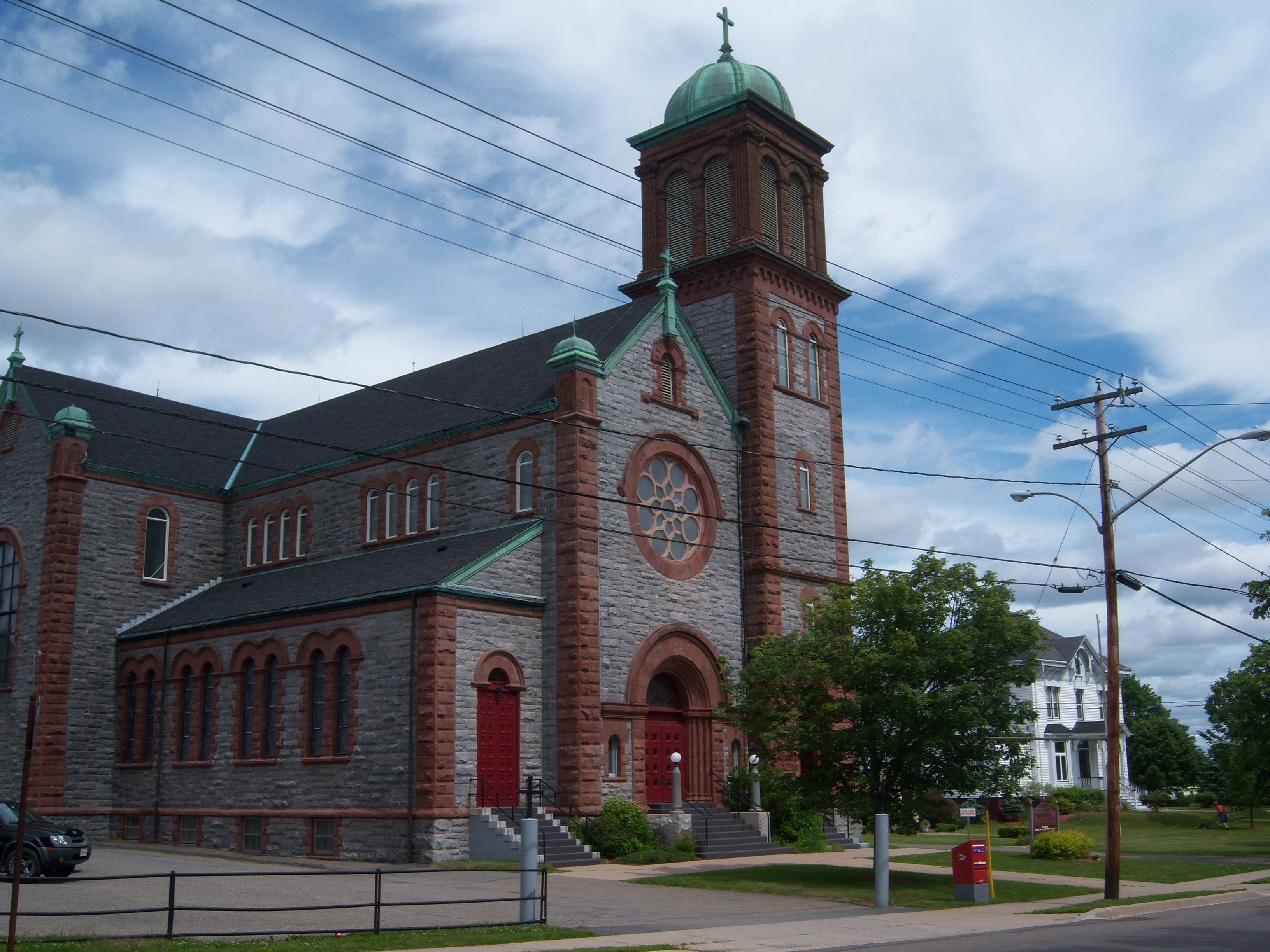 Stella Maris Roman Catholic Church in Saint John, New Brunswick, Canada